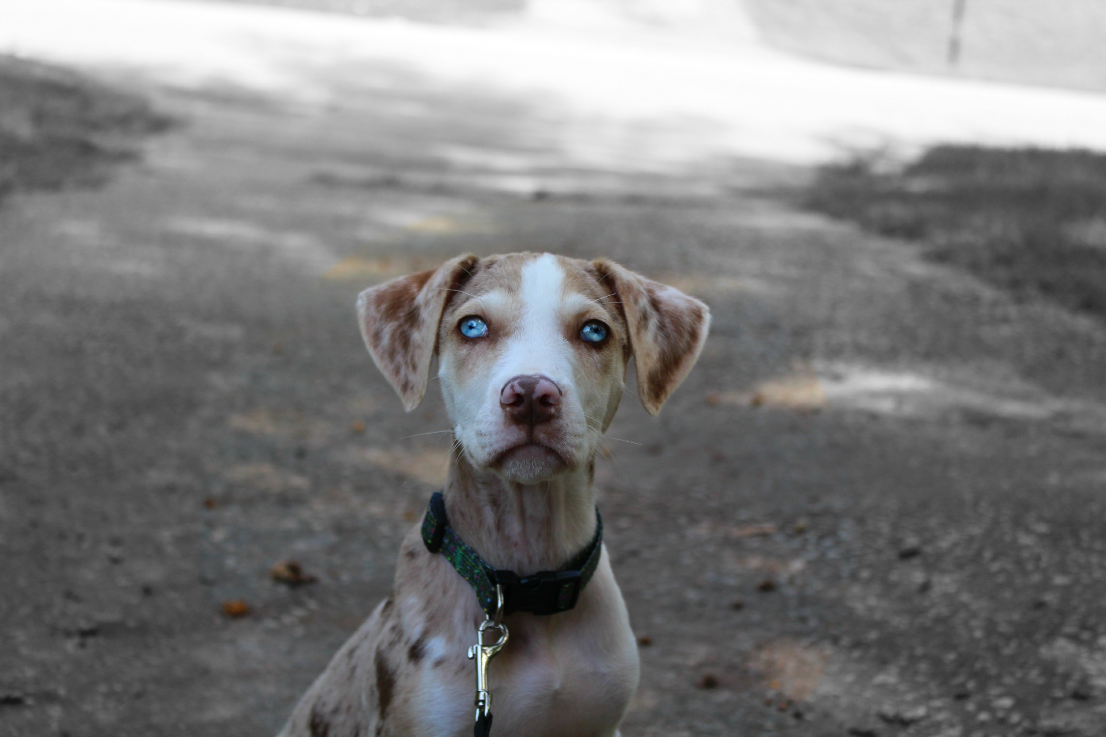 Catahoula